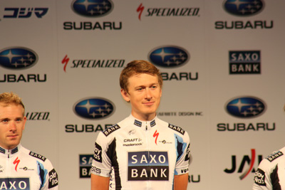 Gustav Erik Larsson